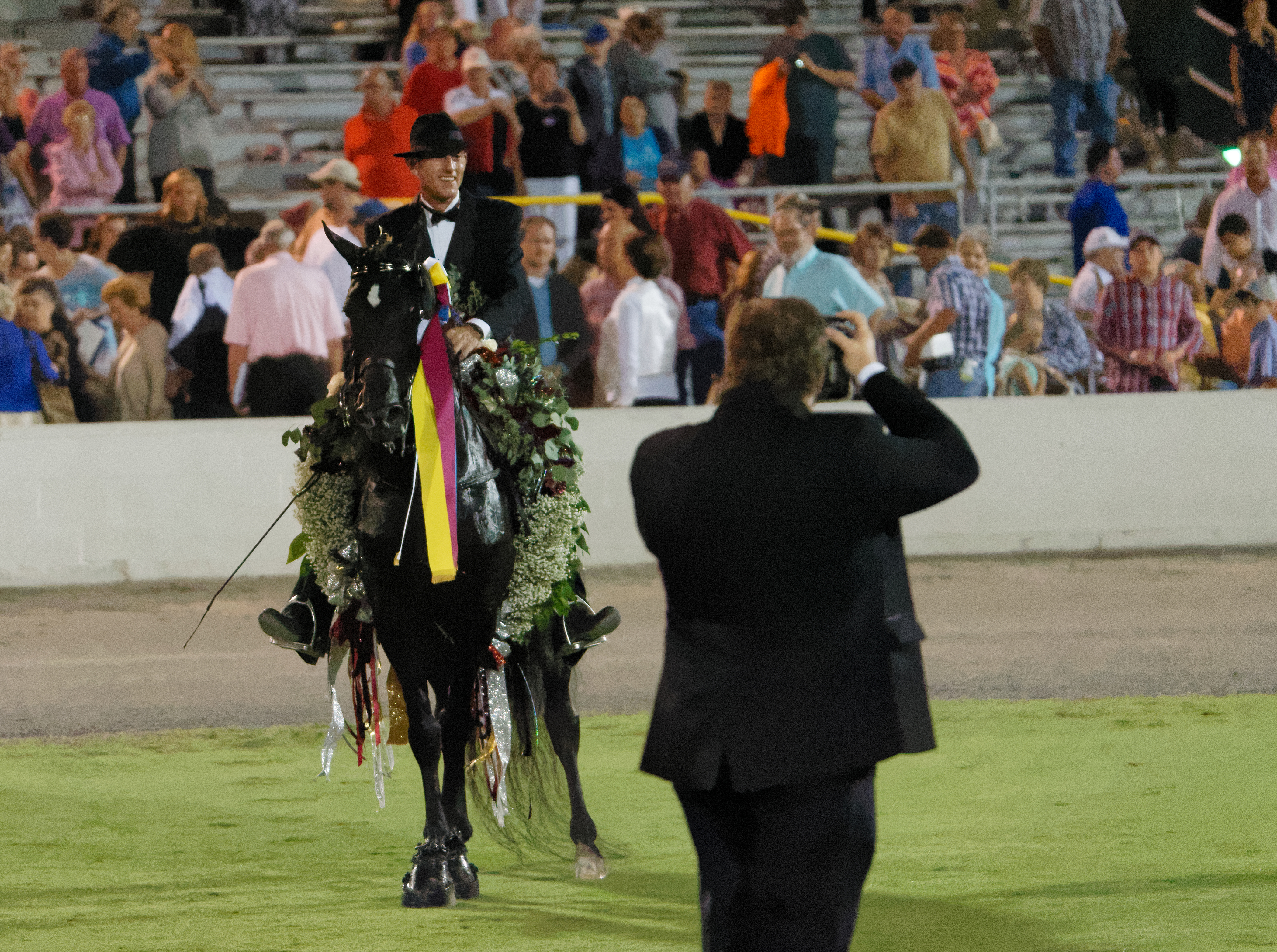 2015 Tennessee Walking Horse Celebration, 3-Peat 2015 World Grand Champion, I Am Jose, ridden by trainer, Casey Wright